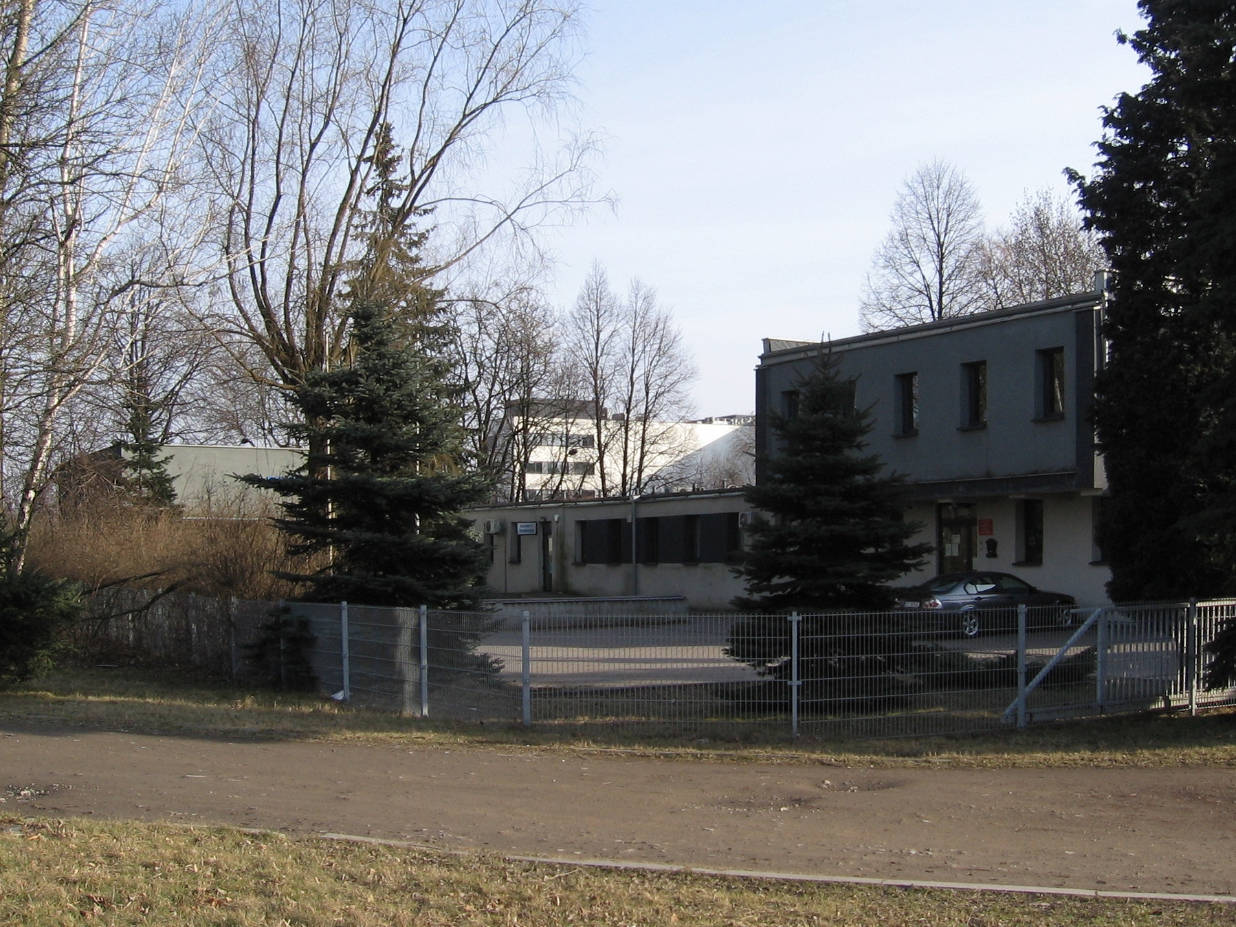 The former Estrada Śląska building, Kościuszki street 88, Katowice, Poland.